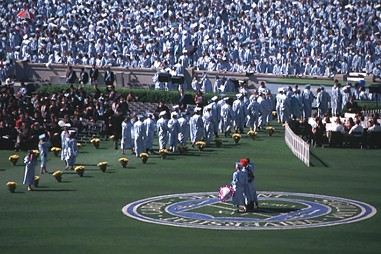 Commencement ceremony at Kenan Memorial Stadium, University of North Carolina at Chapel Hill.